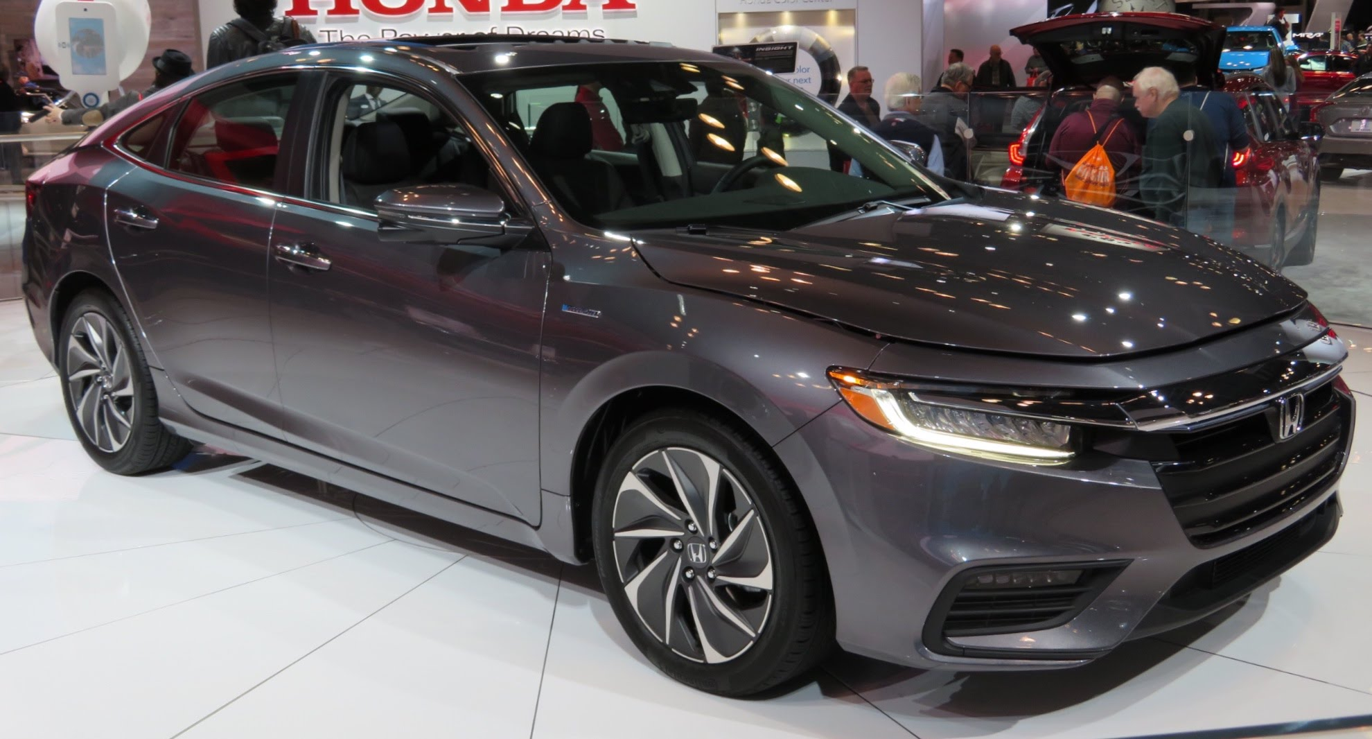 In New York International Auto Show, at Manhattan, New York, USA